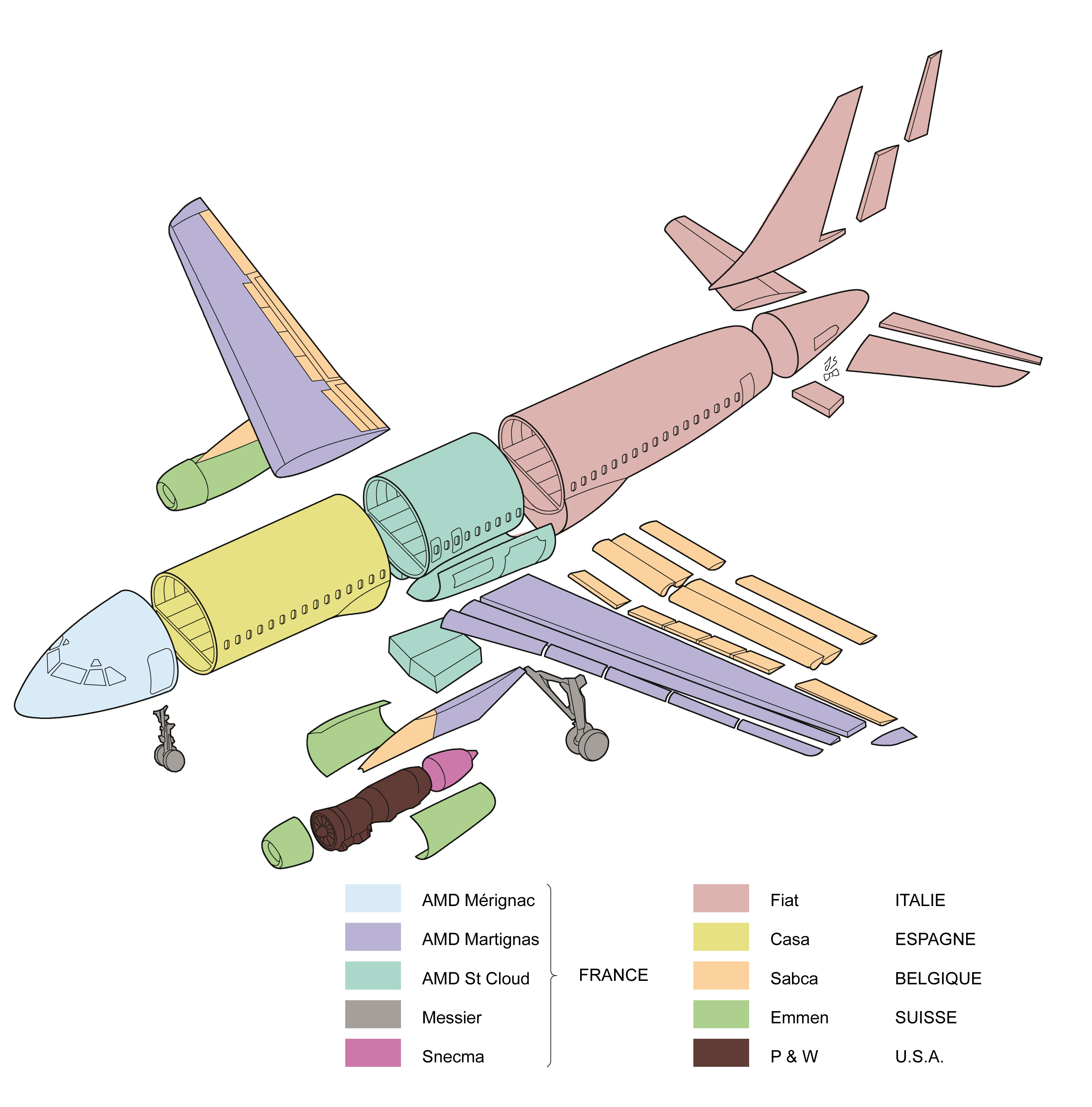 diagram of production parts of Dassault Mercure